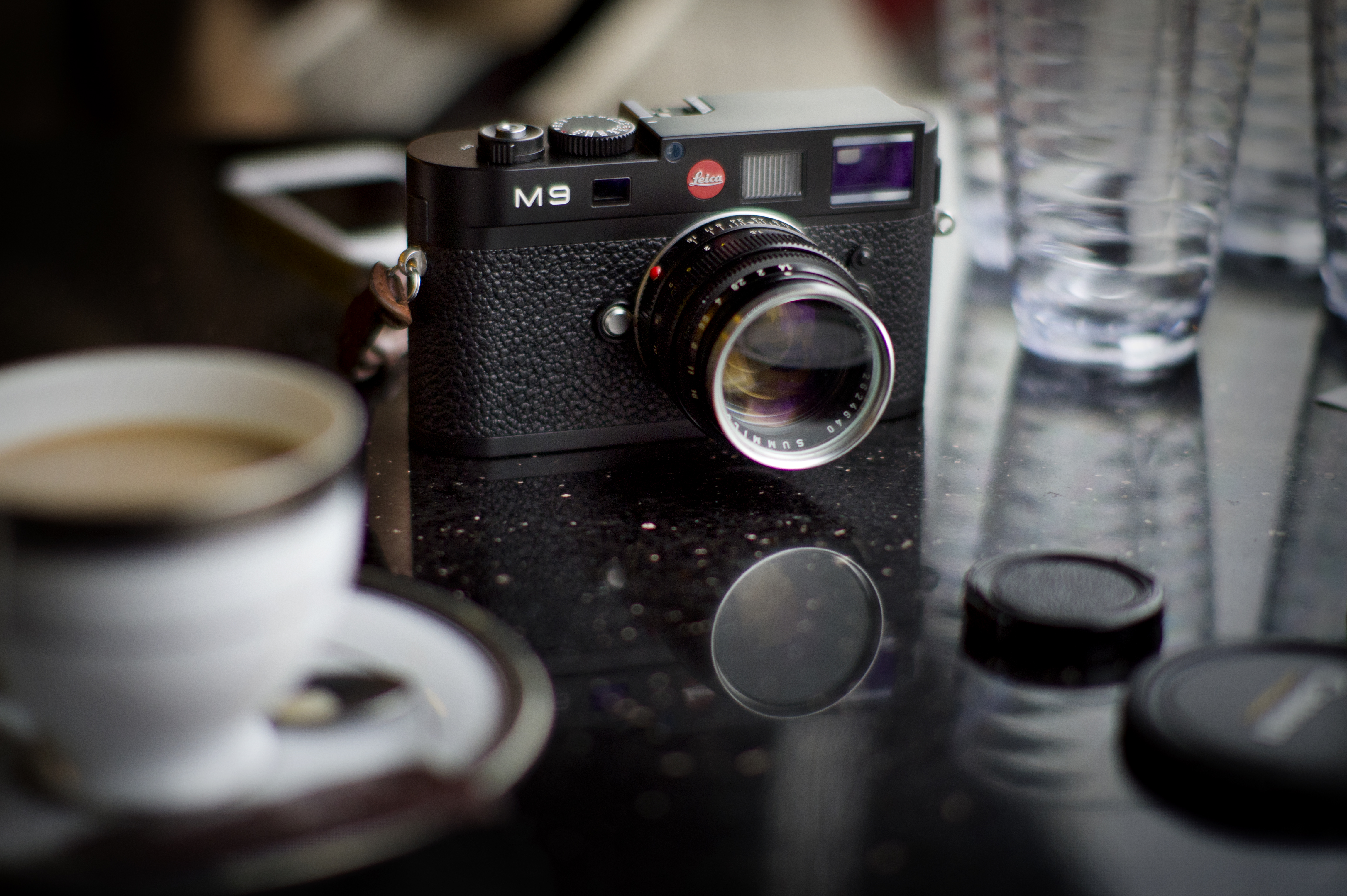 Leica M9 with 50mm Summilux f1.4 Type 2 (1969-1991)